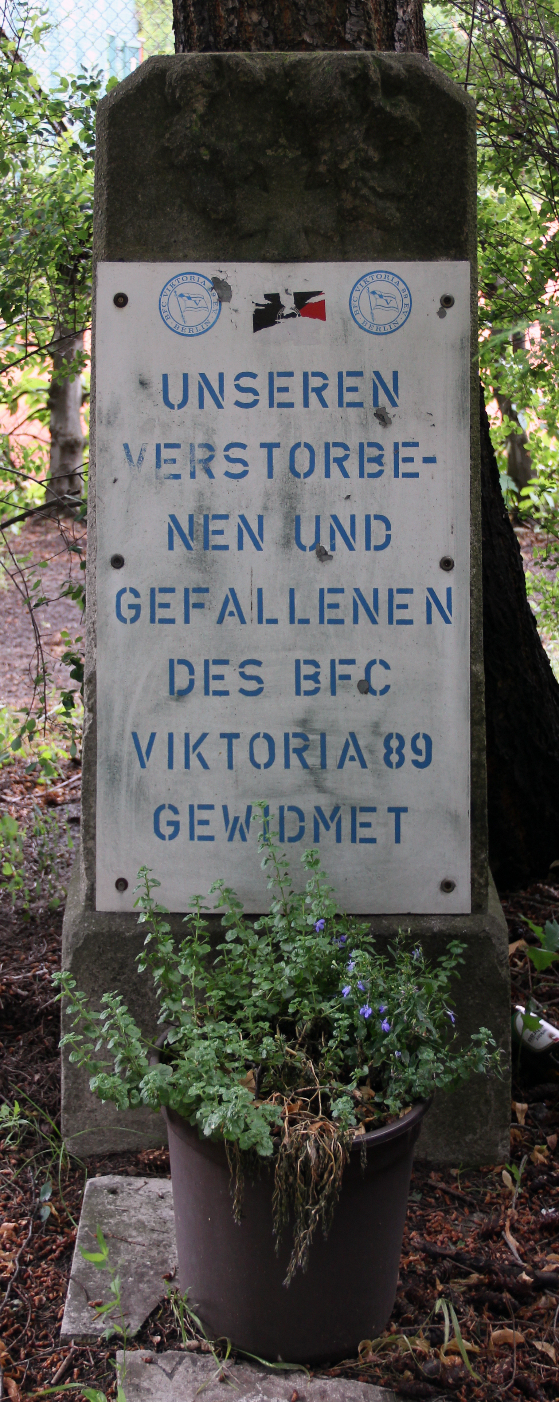 Memorial stone, BFC Viktoria 1889, Bosestraße 21, Berlin-Tempelhof, Germany